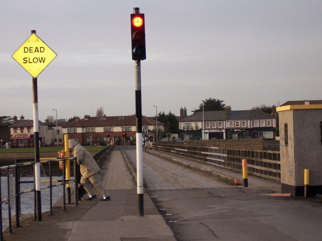 Bull Wall Bridge, Clontarf A not very safe looking wooden bridge connecting the mainland to Bull Island in Dublin Bay.